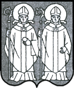 Brzeźce COA